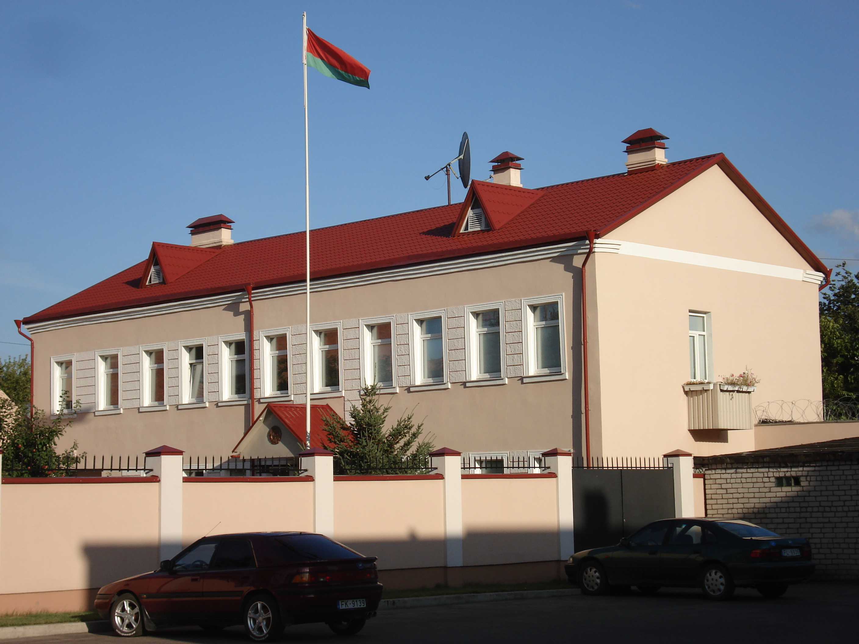 Consulate General of the Republic of Belarus in Daugavpils (Latvia)